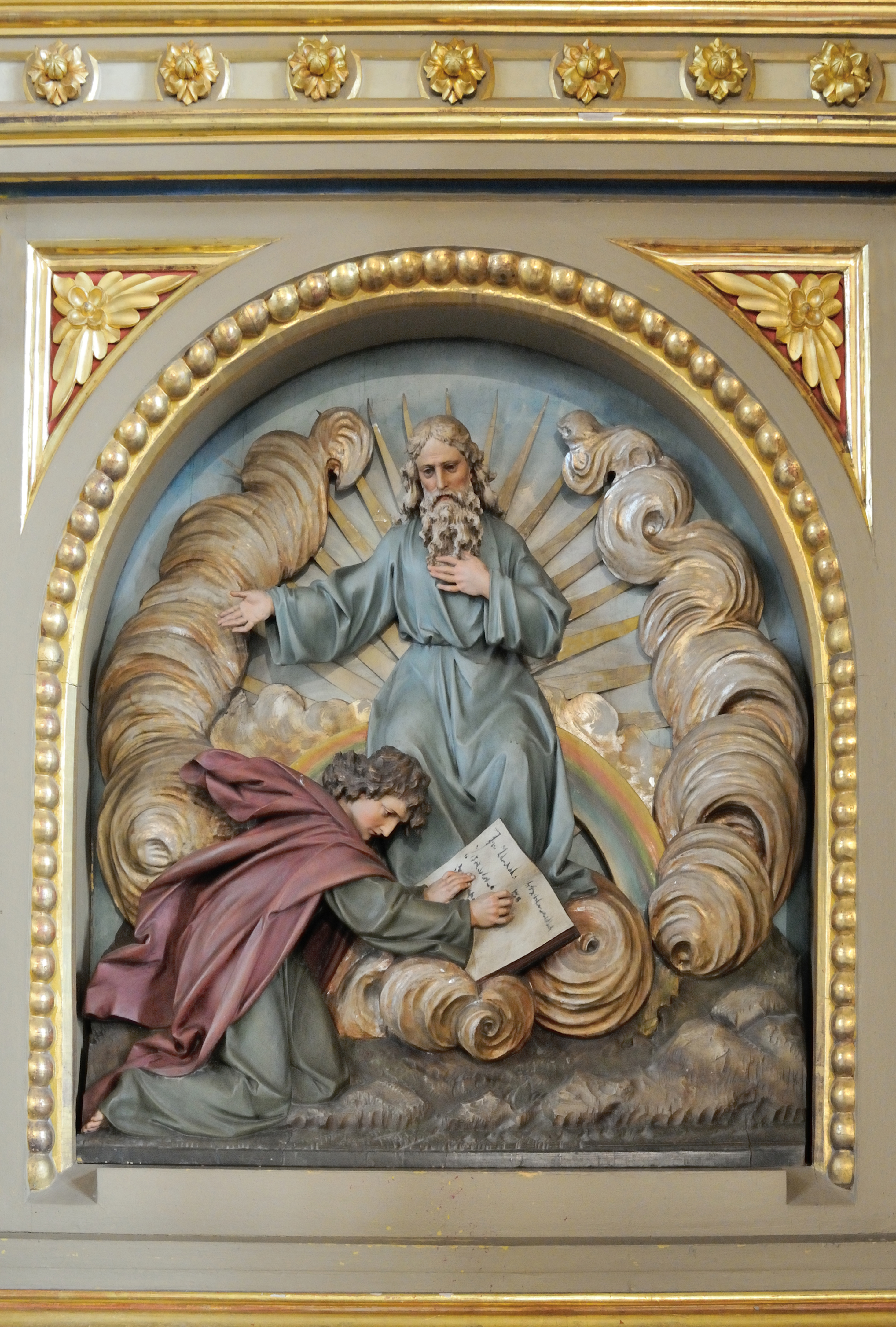 Vision of St. John on Patmos, woodcarved polichromed relief by Ferdinand Demetz St. Ulrich in Gröden - Ortisei Val Gardena Italy.